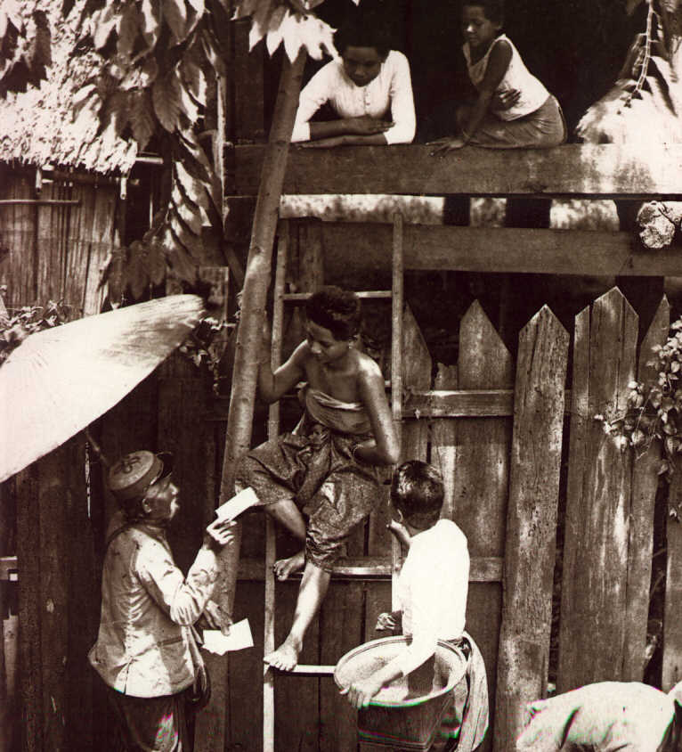 Photo of a postman in the reign of the fifth monarch of Siam, Chulalongkorn (1853–1910).